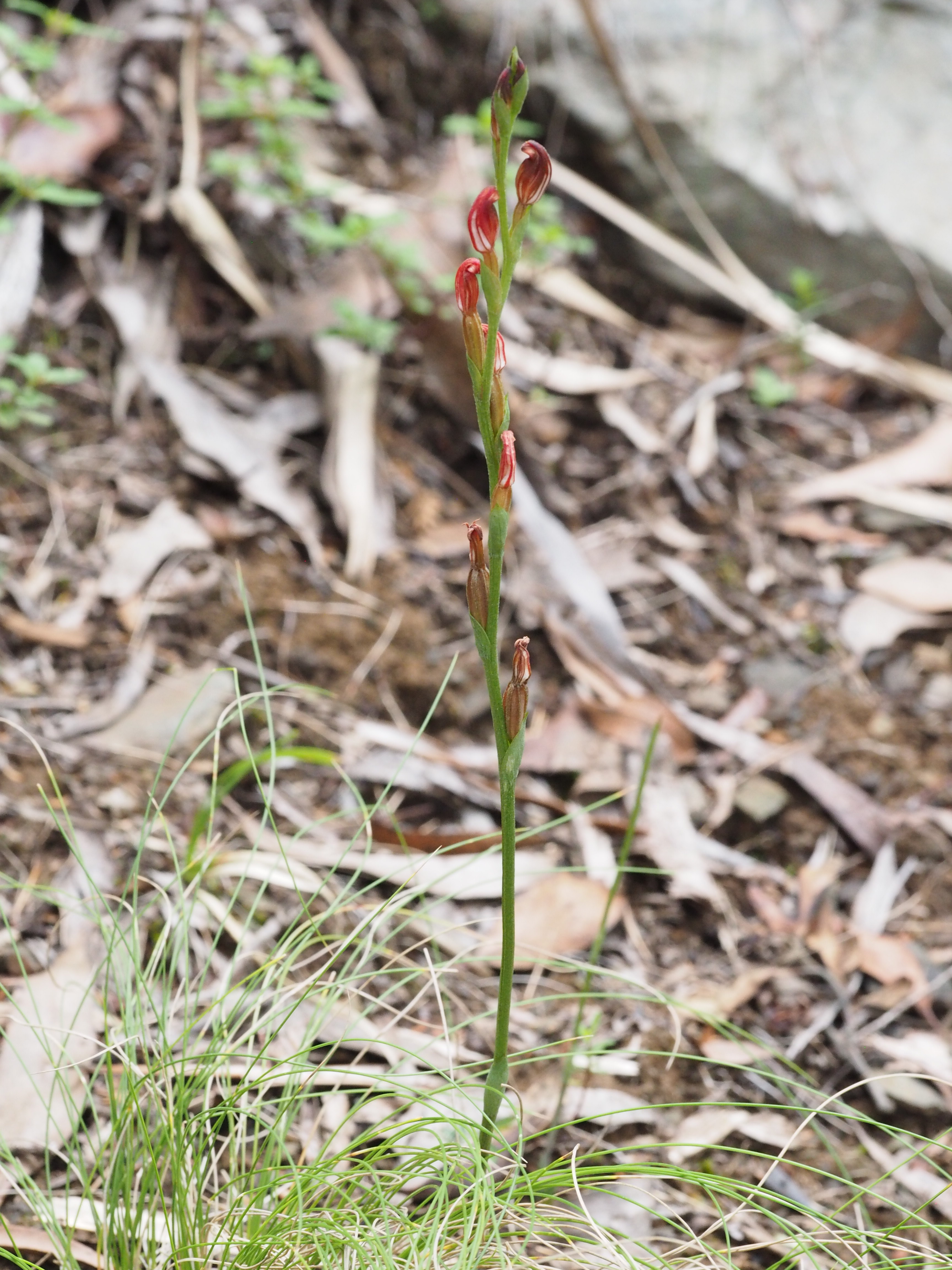 Pterostylis amabilis growing near Wright's Lookout in the New England National Park